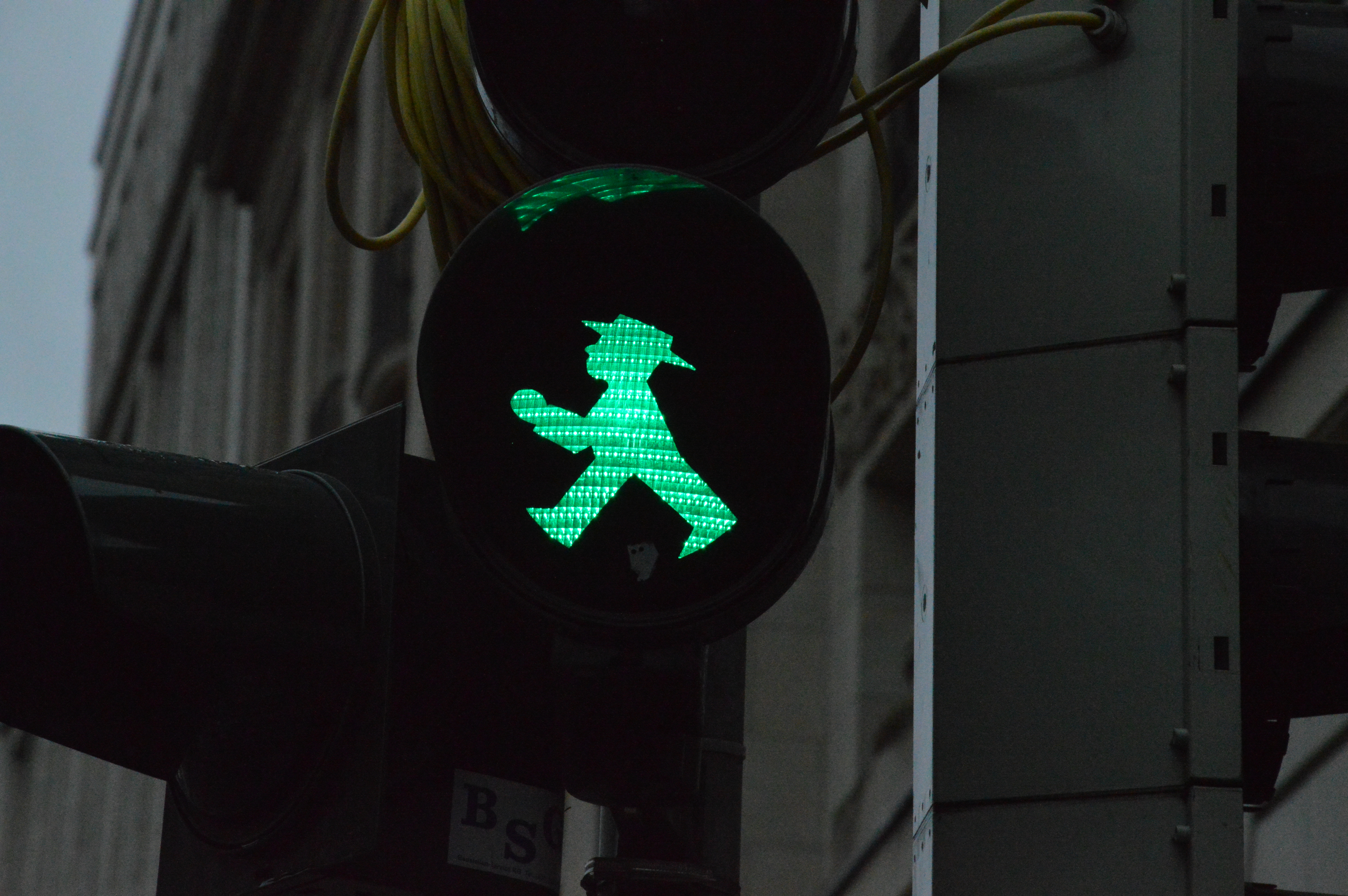 Green Ampelmann in Berlin